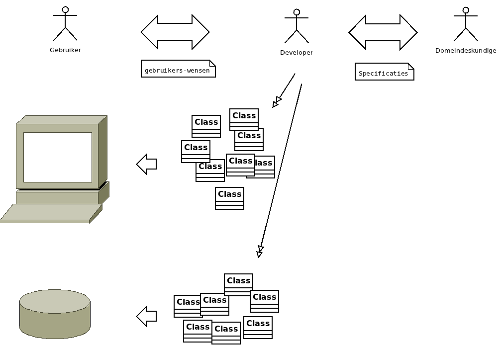 A diagram displaying the interaction during single level modelling of software